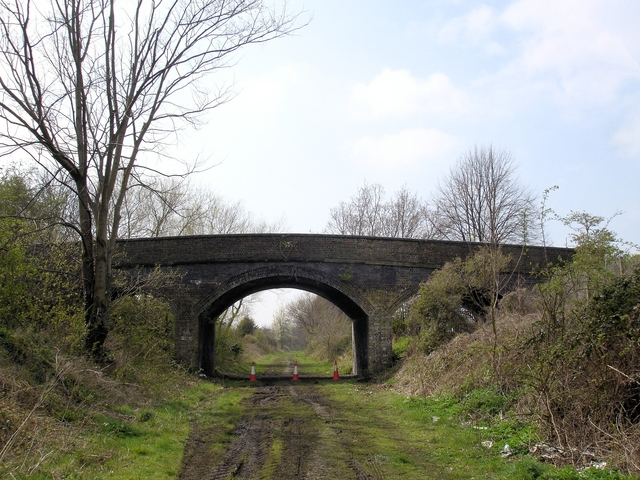 Chester - Fairfield Road bridge. Chester. On the disused Mickle Trafford railway just east of the Fairfield Road bridge. The rail track is being developed by SusTrans as a cycleway and this part will also soon be the new extension of the Longster Trail running from Guilden Sutton to Blacon. The traffic cones and JCB tracks are a positive indication that SusTrans work was in progress at the time the picture was taken! Compare with 641207 taken from the other side of the bridge looking away from Chester.